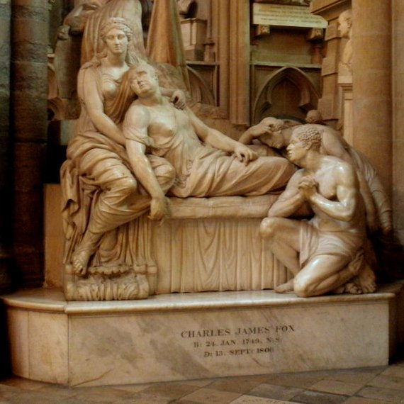 Tomb of Charles James Fox, Westminster Abbey, London, England